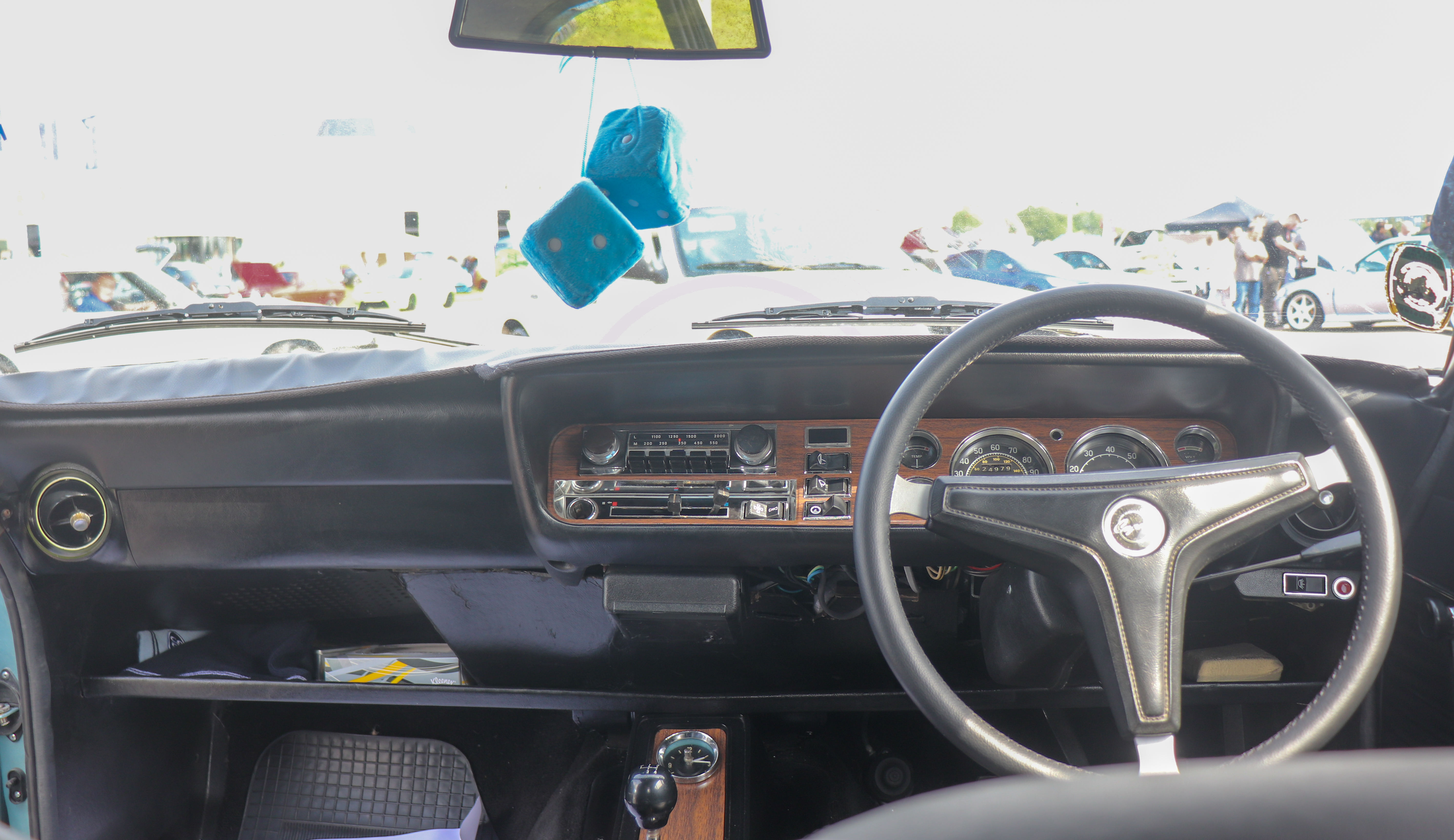 1969 Ford Capri GT 2.0 Interior Taken at the Ford Nationals 2019, British Motor Museum, Gaydon